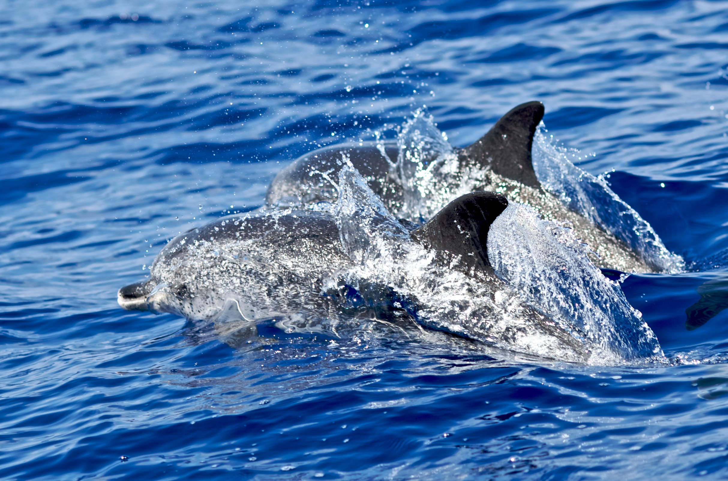 Two atlantic spotted dolphins in the wild.